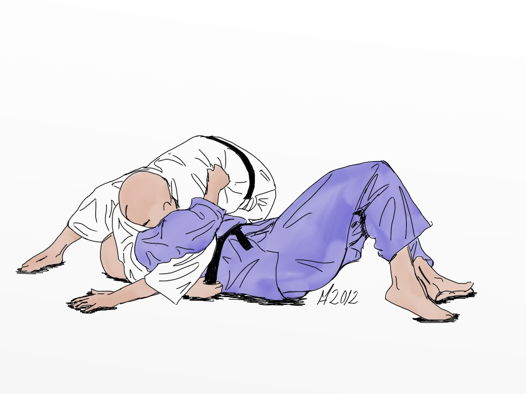 Free to use under the creative commons license with proper attribution.